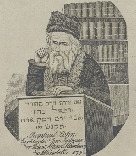 A portrait of Rabbi Raphael Cohen of Hamburg (1722-1803).